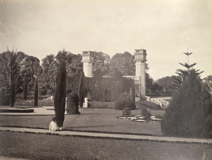 "Bangalore, Madras [Karnataka]. The Lall Bagh, or Red Garden," view of Lal Bagh by the photographer Nicholas Bros. Dated 1860s. Courtesy of the British Library, London.